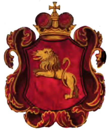 Coat of arms Belarusian noble family Princes Žyžemski.